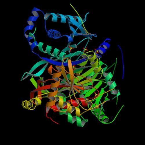 Trimeric form of the catalytic domain of the Escherichia coli dihydrolipoamide succinyltransferase.